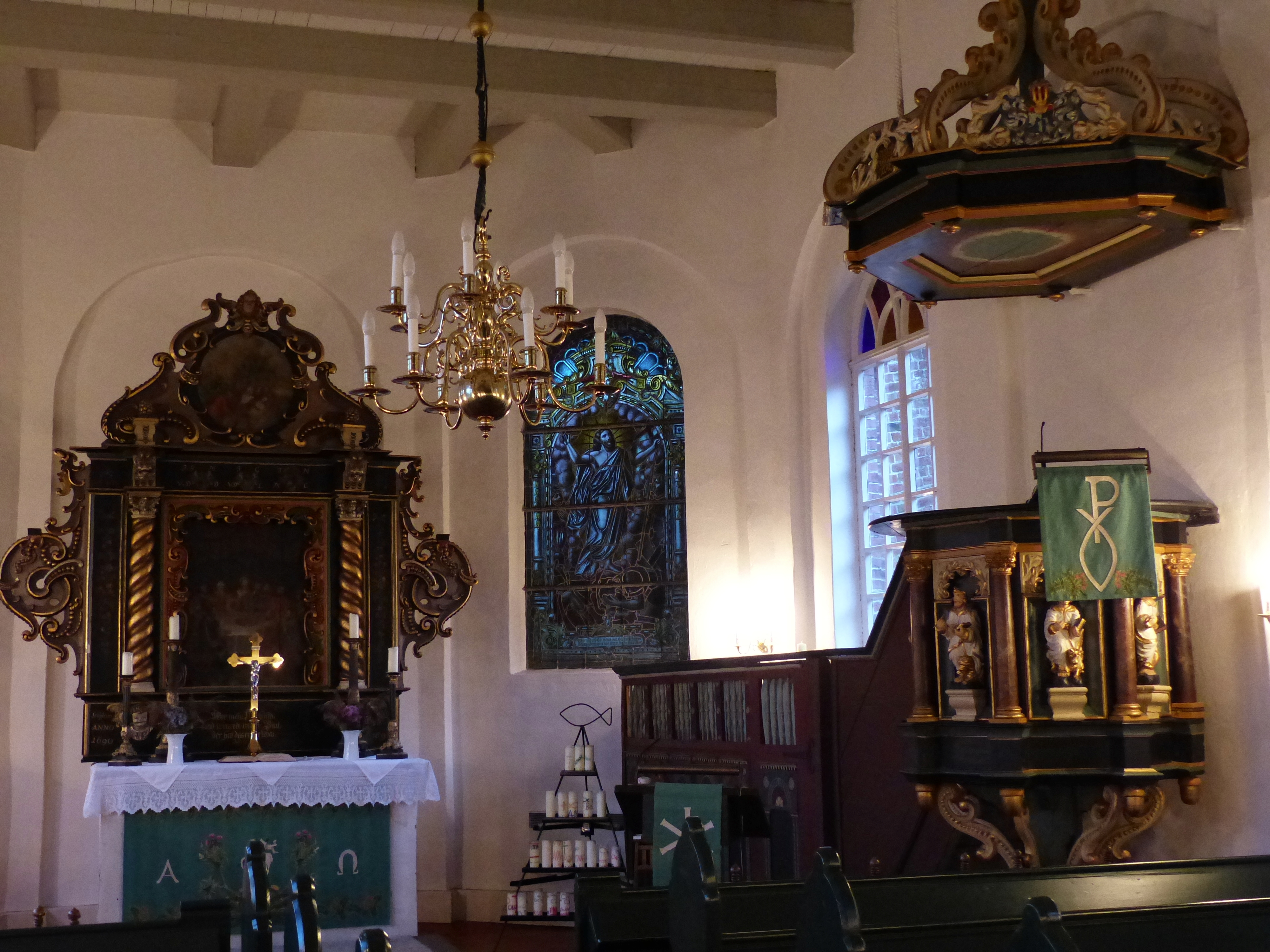 Altar and pulpit of Neuenwalde Convent church 53°40′34″N 8°41′31″E / 53.6761344°N 8.6919211°E